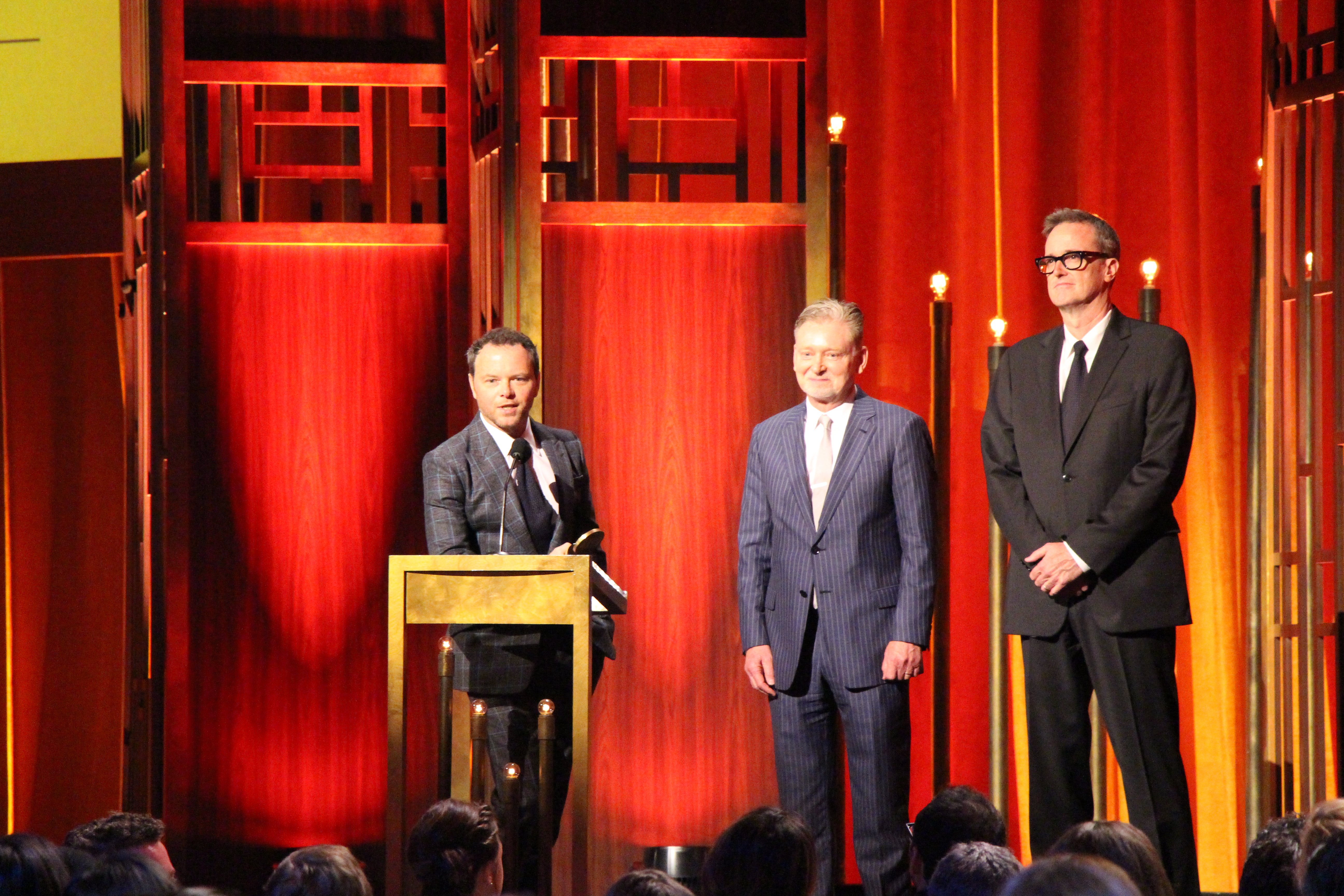 Executive Producer Noah Hawley accepts the Peabody for Fargo. He is joined on the stage by Warren Littlefield and John Cameron.